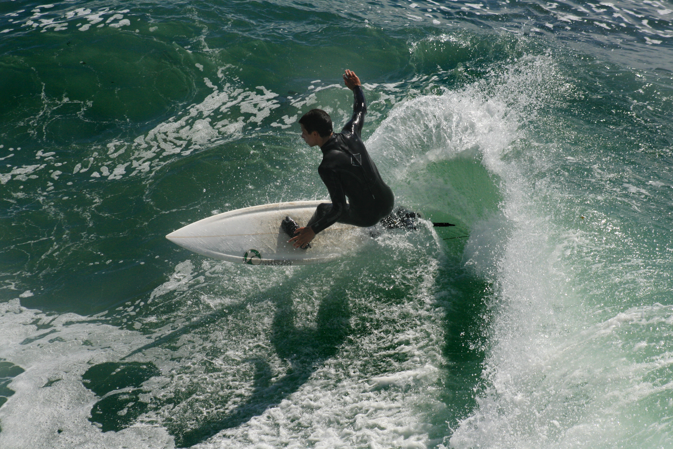 A California surfer. Santa Cruz and the surrounding Northern California coastline is a popular surfing destination; however, the year-round low temperature of the ocean in that region (averaging 57ºF/14ºC) necessitates the use of wetsuits.